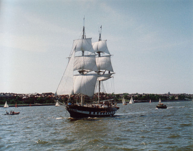 Parade of Sail, 1988 - TS Royalist. TS Royalist is a brig owned and operated as a sail training ship by the Sea Cadet Corps. Launched in 1971, as of 2008 she is still sailing, as 876387 shows.